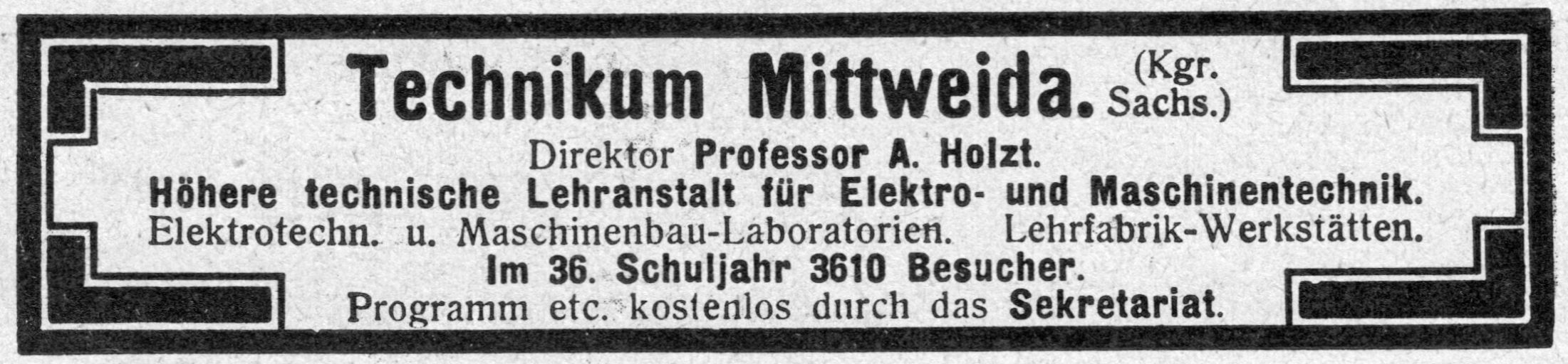 Advertisement of Technikum Mittweida